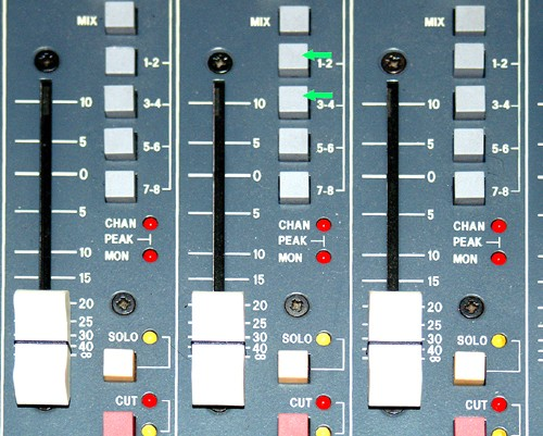 Image of group assign features on a mixing console. This picture was taken by Mike Sorensen on April 10, 2007 and donated to public domain.